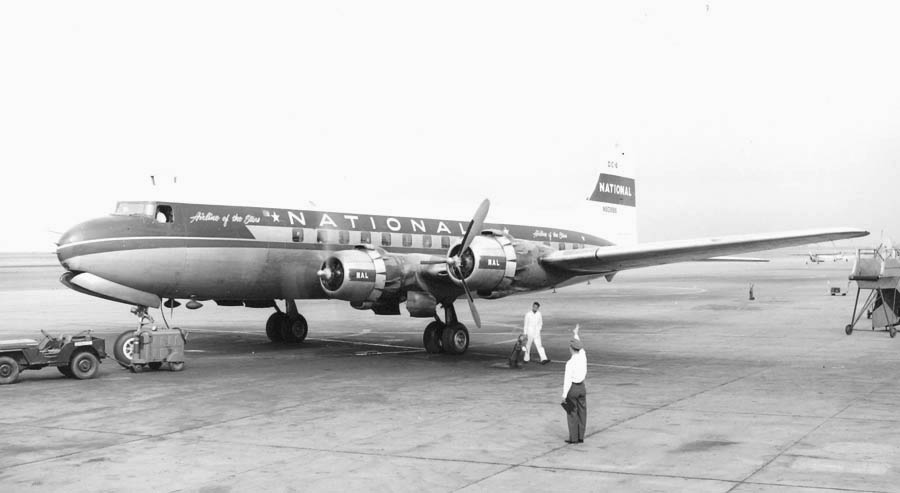 National Airlines DC-6 (N90896) starting its engines at Oakland Airport in May 1952.